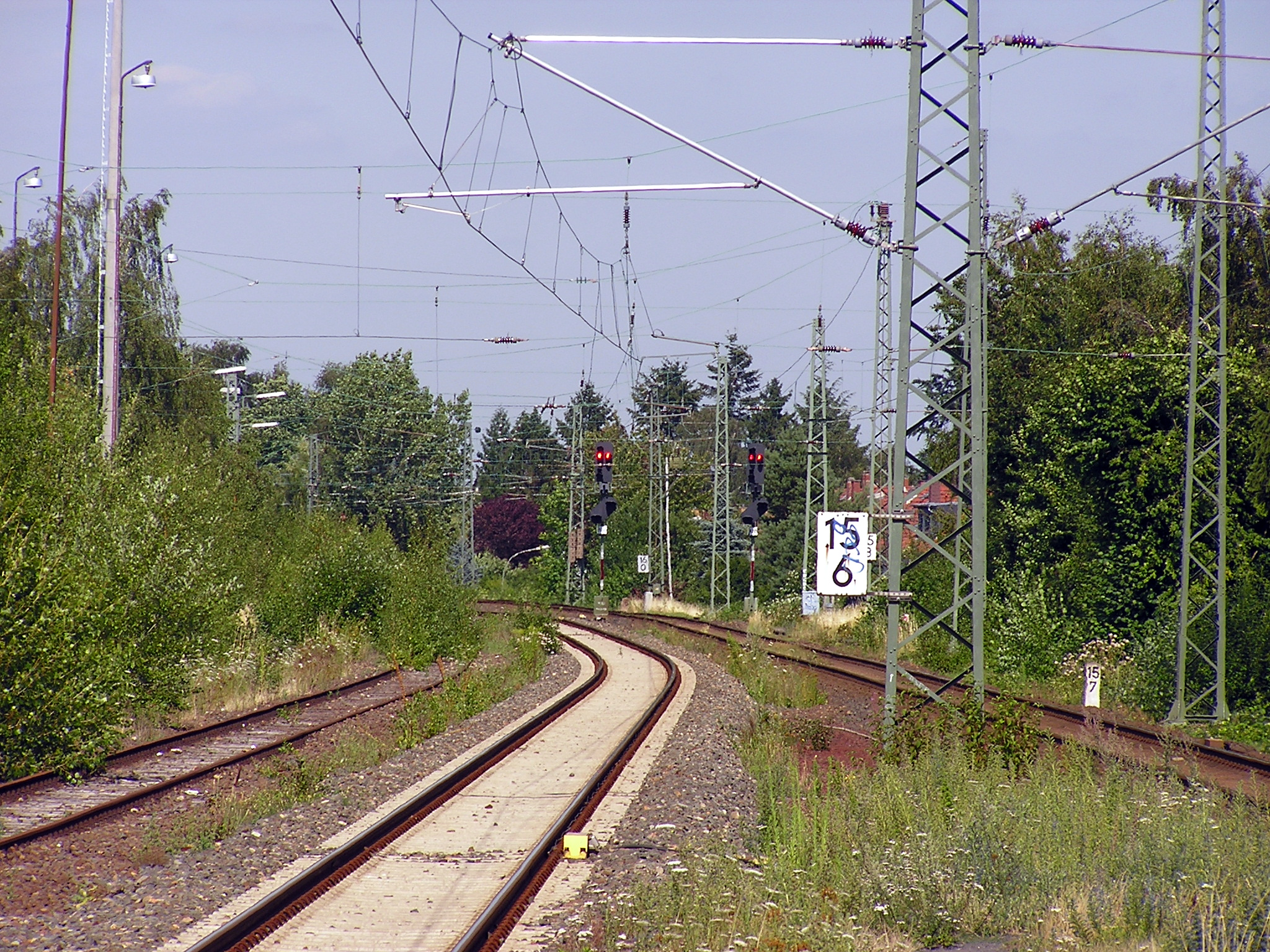 Northern end of the station Oberursel (direction Bad Homburg)